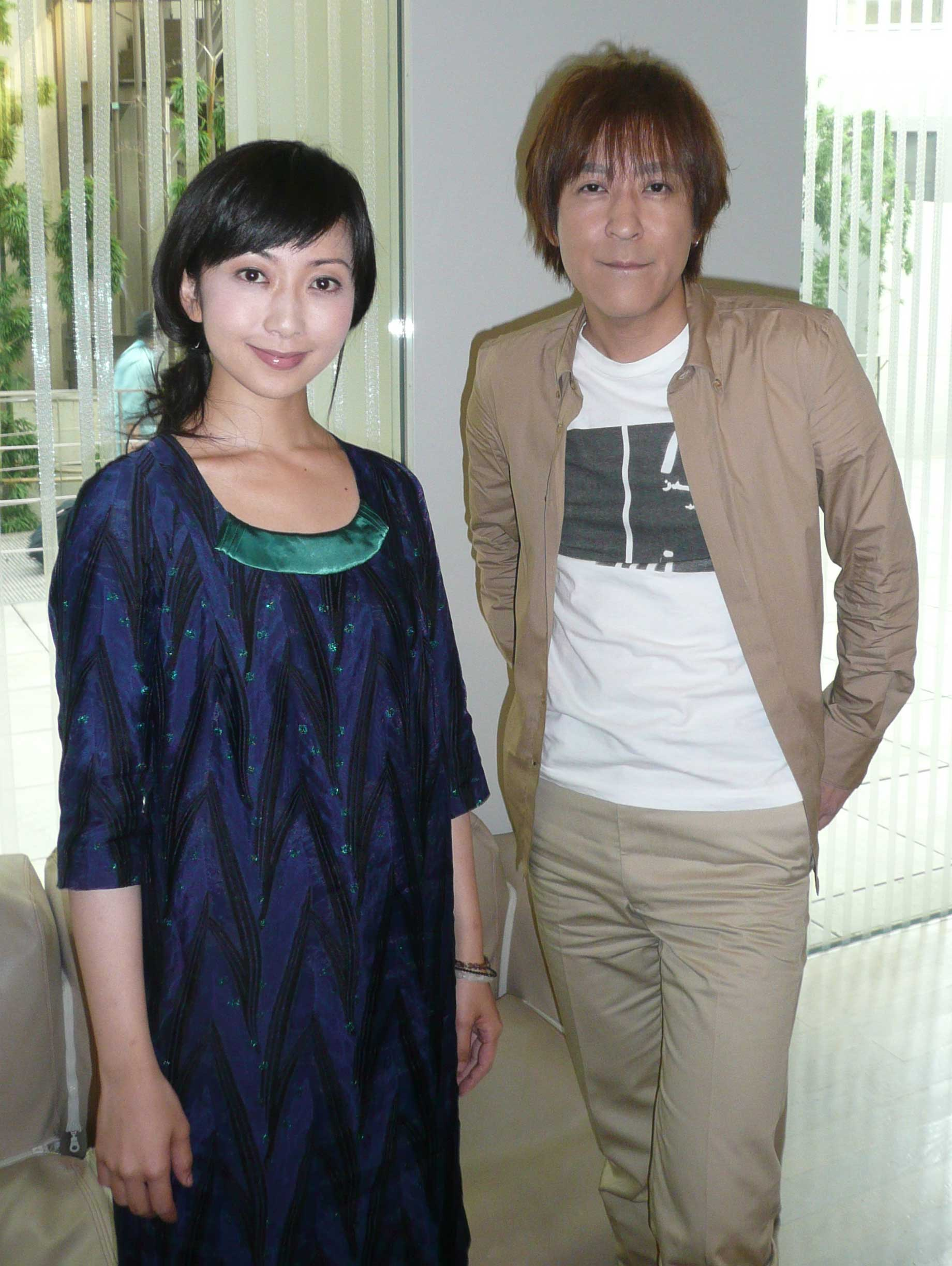 Kaori Mochida and Ichiro Ito of Every Little Thing pose in an Aoyama cafe, Tokyo.